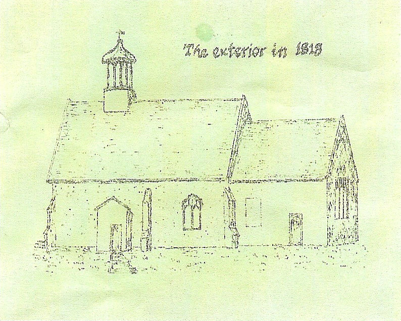 Sketch of All Saints' parish church, Crowfield, Suffolk, drawn in 1818